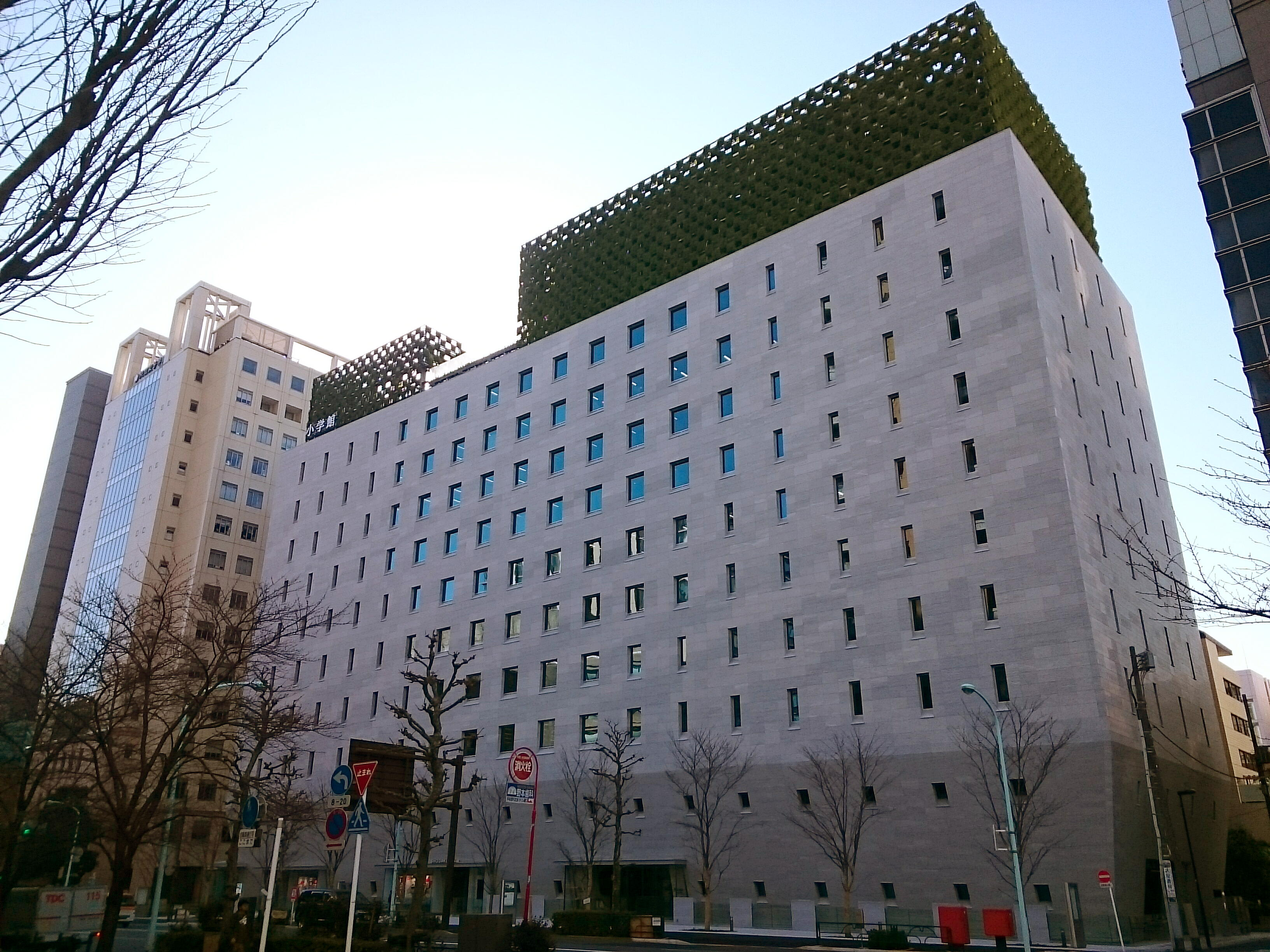 Shogakukan Building in December 25,2016. Hitotsubashi 2-3-1, Chiyoda, Tokyo, Japan.